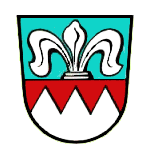 Coat of Arms of Kirchheim